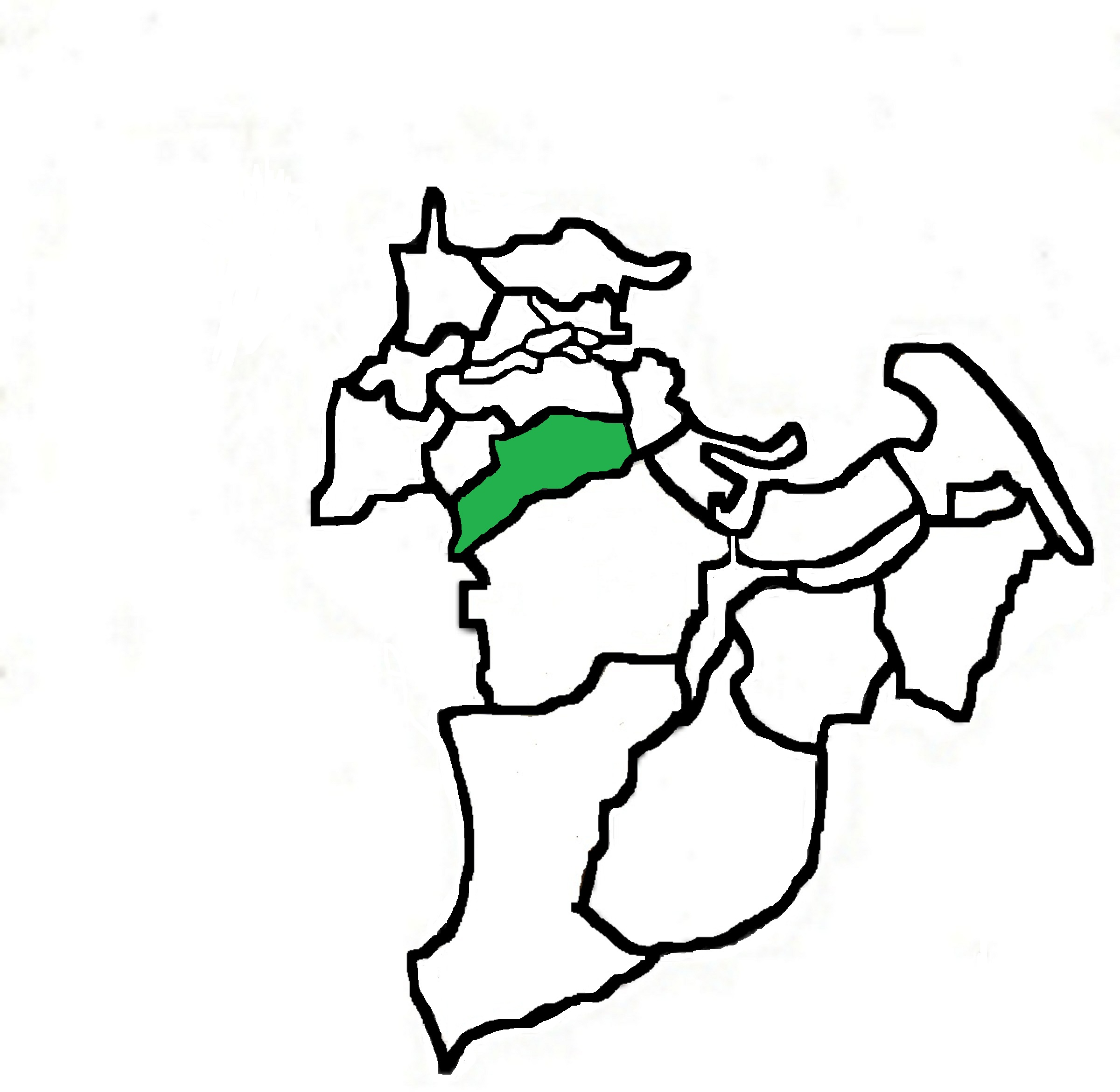 Shiboh Komatsushimacity Tokushimapref range